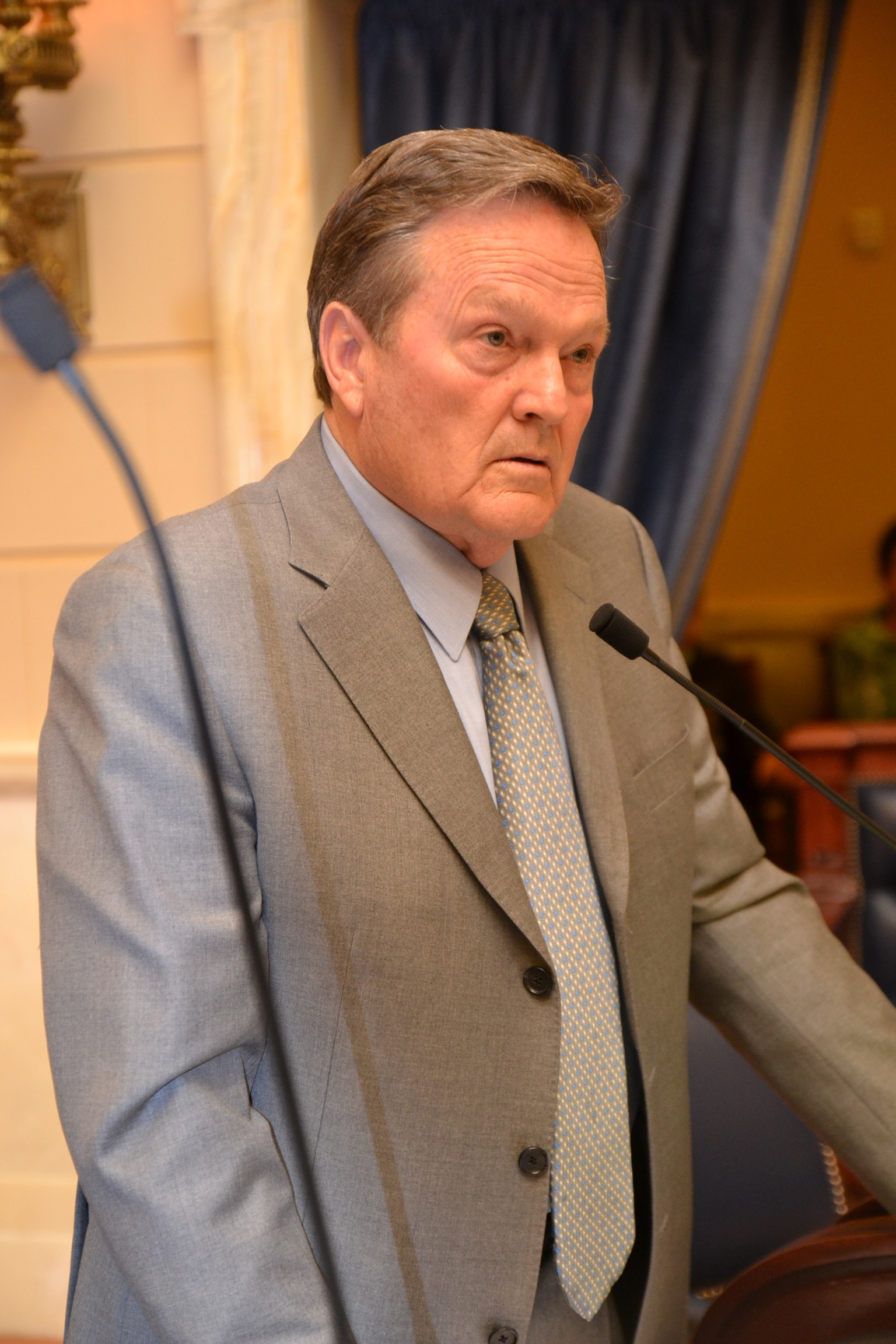 Senator Jerry Stevenson